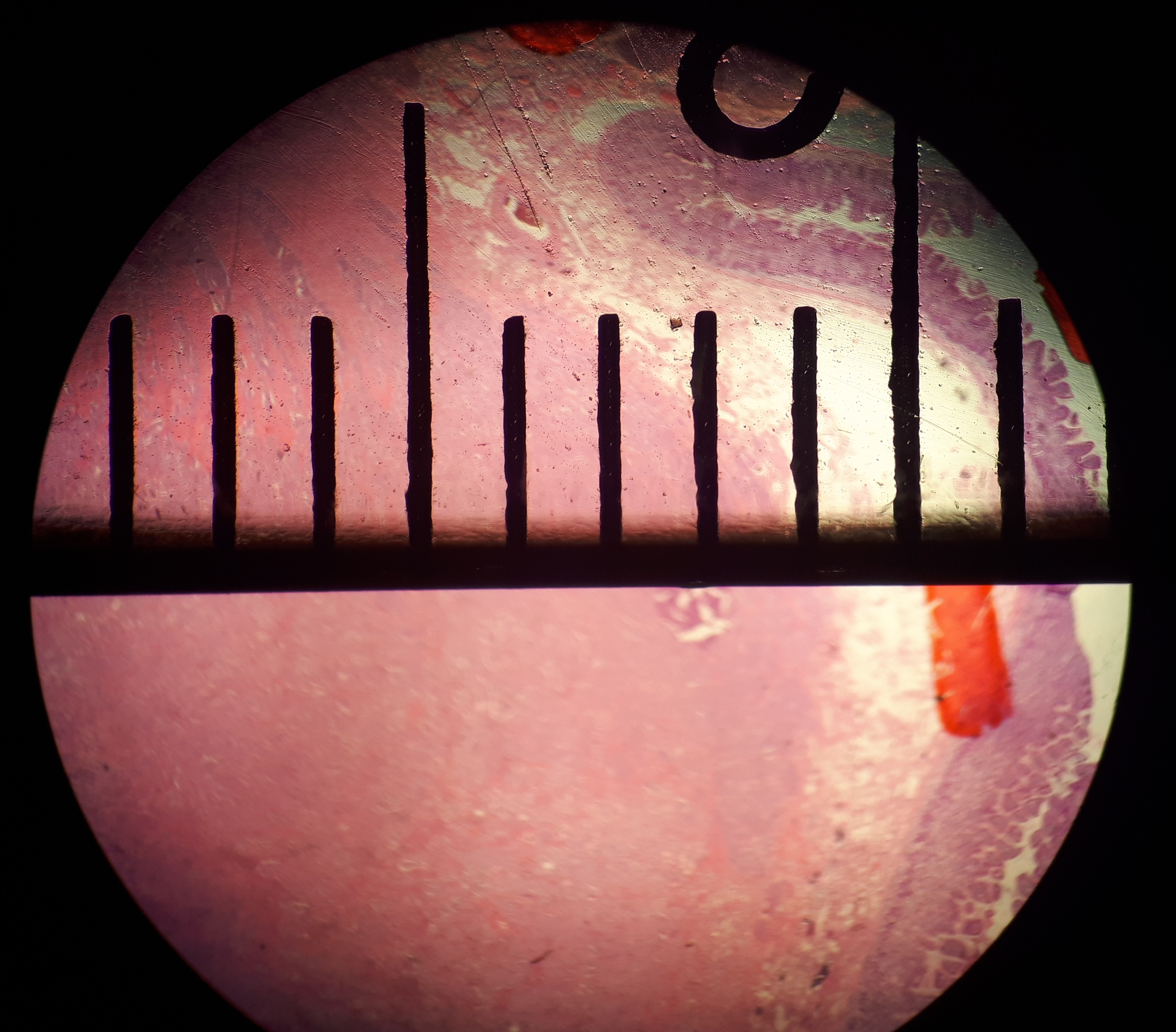 Field of view diameter in microscopy, in this case 11.2 mm.